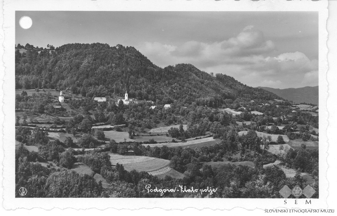 Postcard of Podgora pri Zlatem Polju